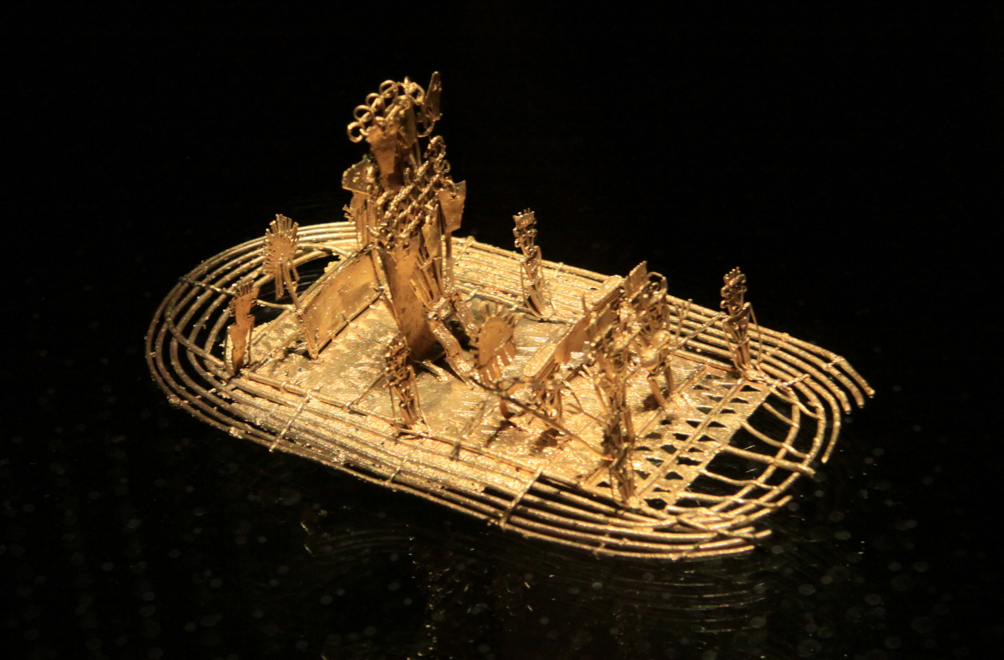 Please, have this description accessible to all by translating it in different languages.